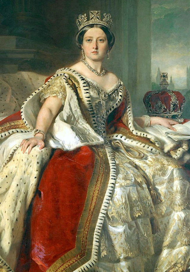 Portrait of Queen Victoria